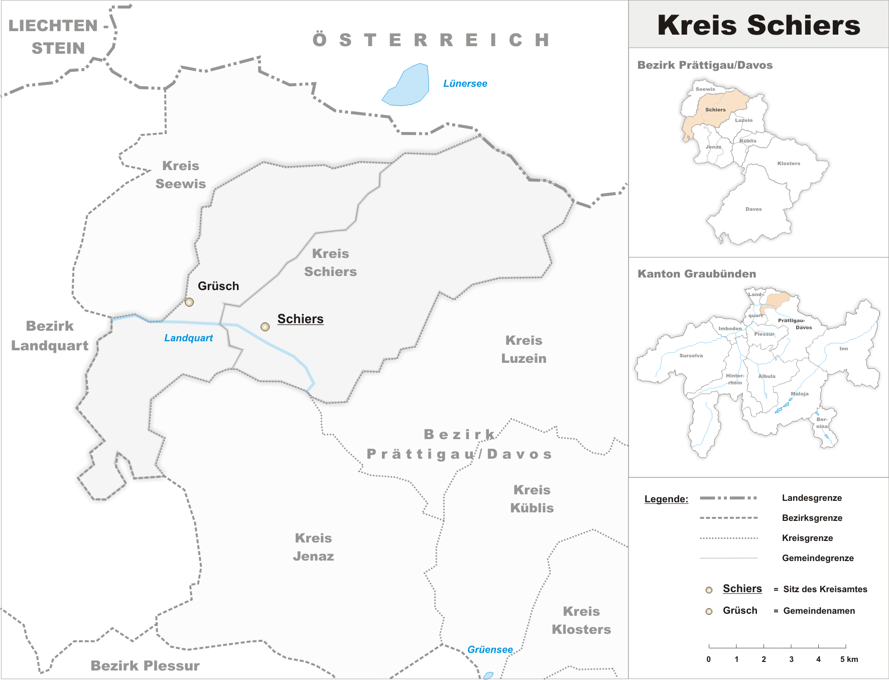 Municipalities in the circle of Schiers